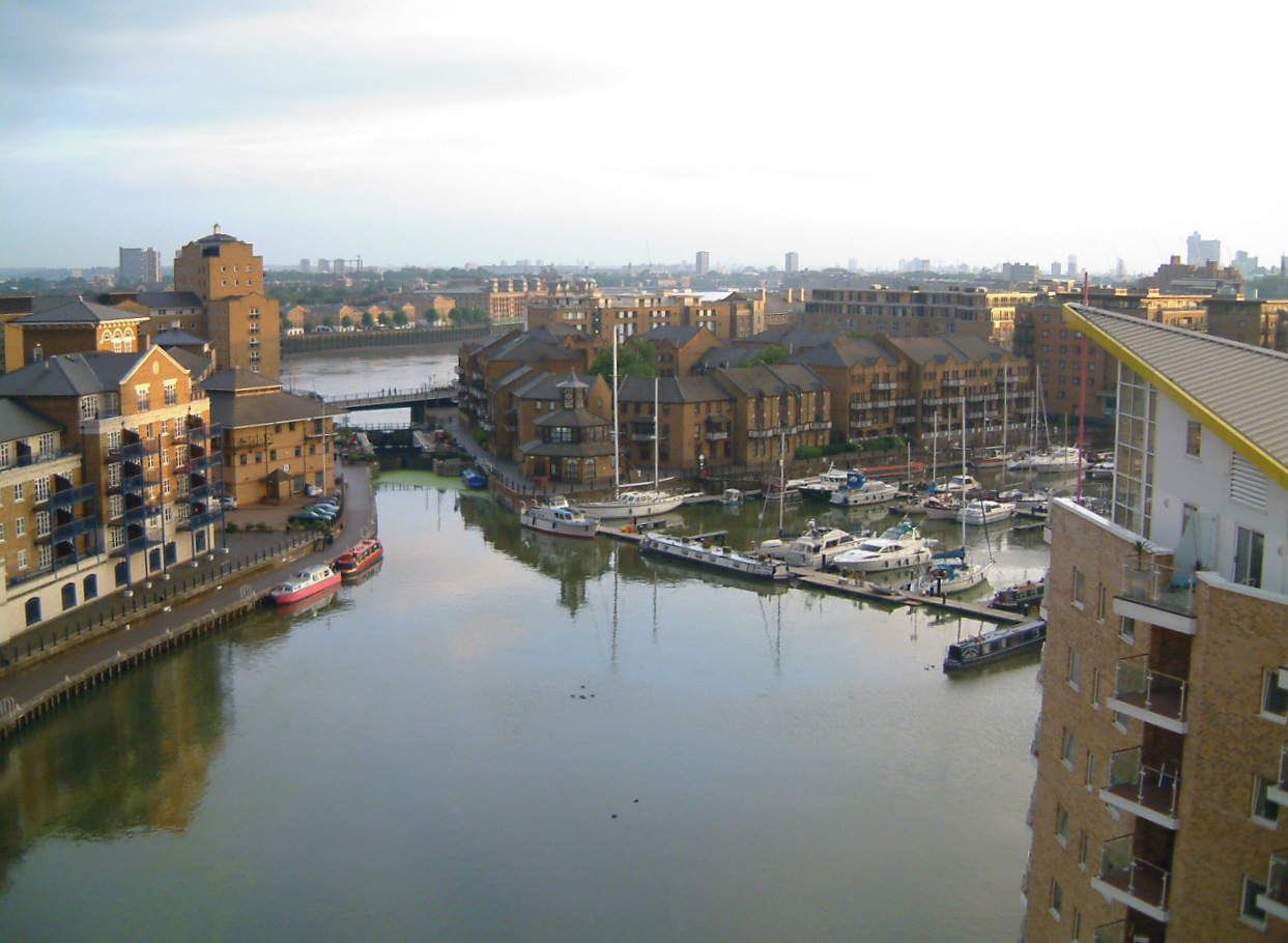 A view of Limehouse Basin from a surrounding apartment, with the Thames in the background, through the lock.